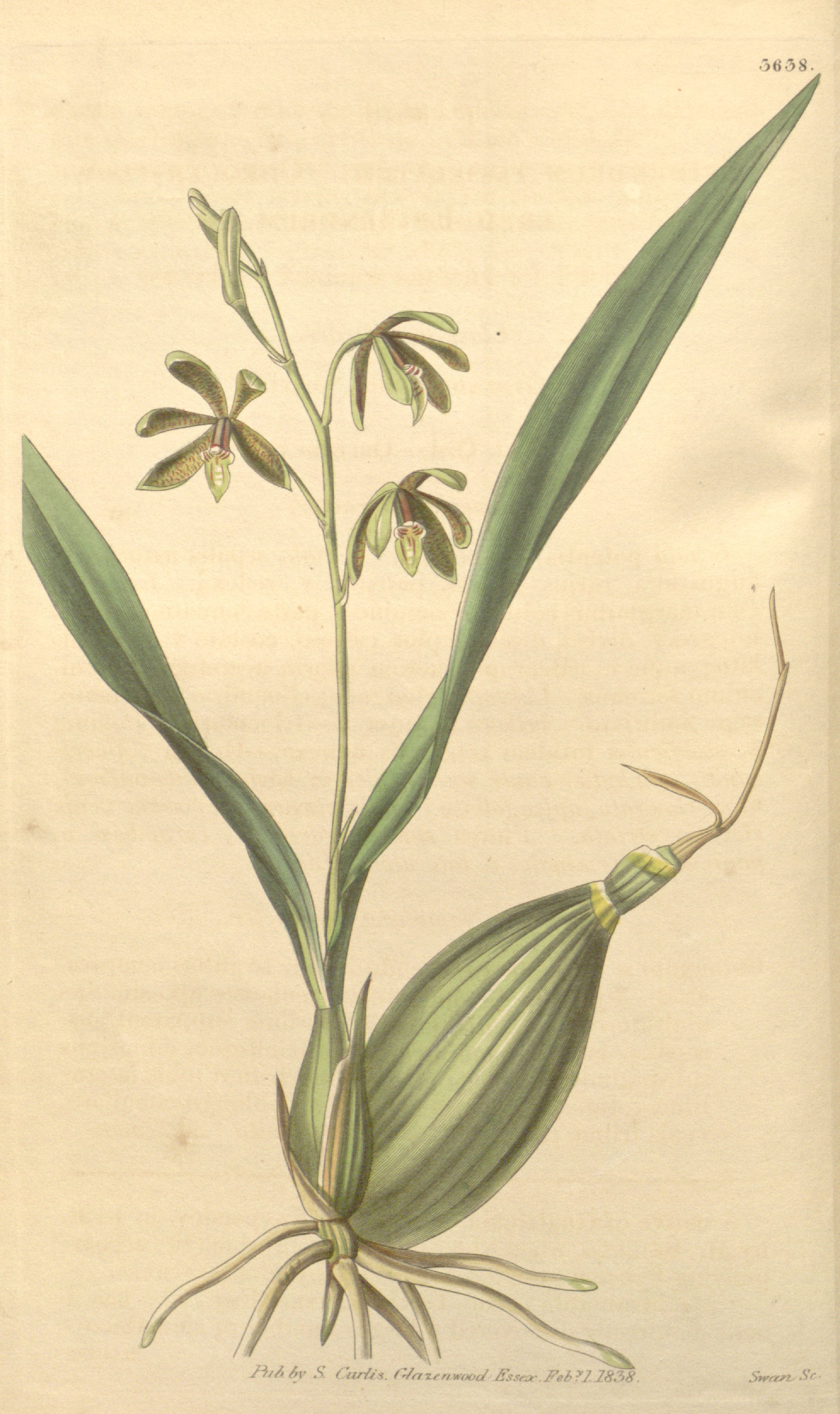 Illustration of Prosthechea livida or Pseudencyclia livida (as syn. Epidendrum tessellatum)